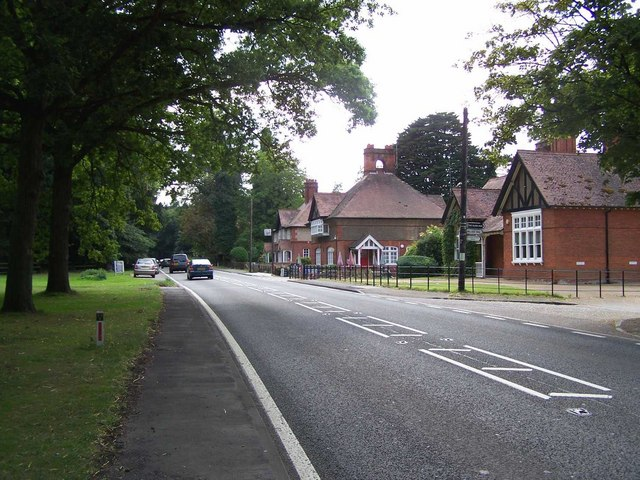 A11, Elveden